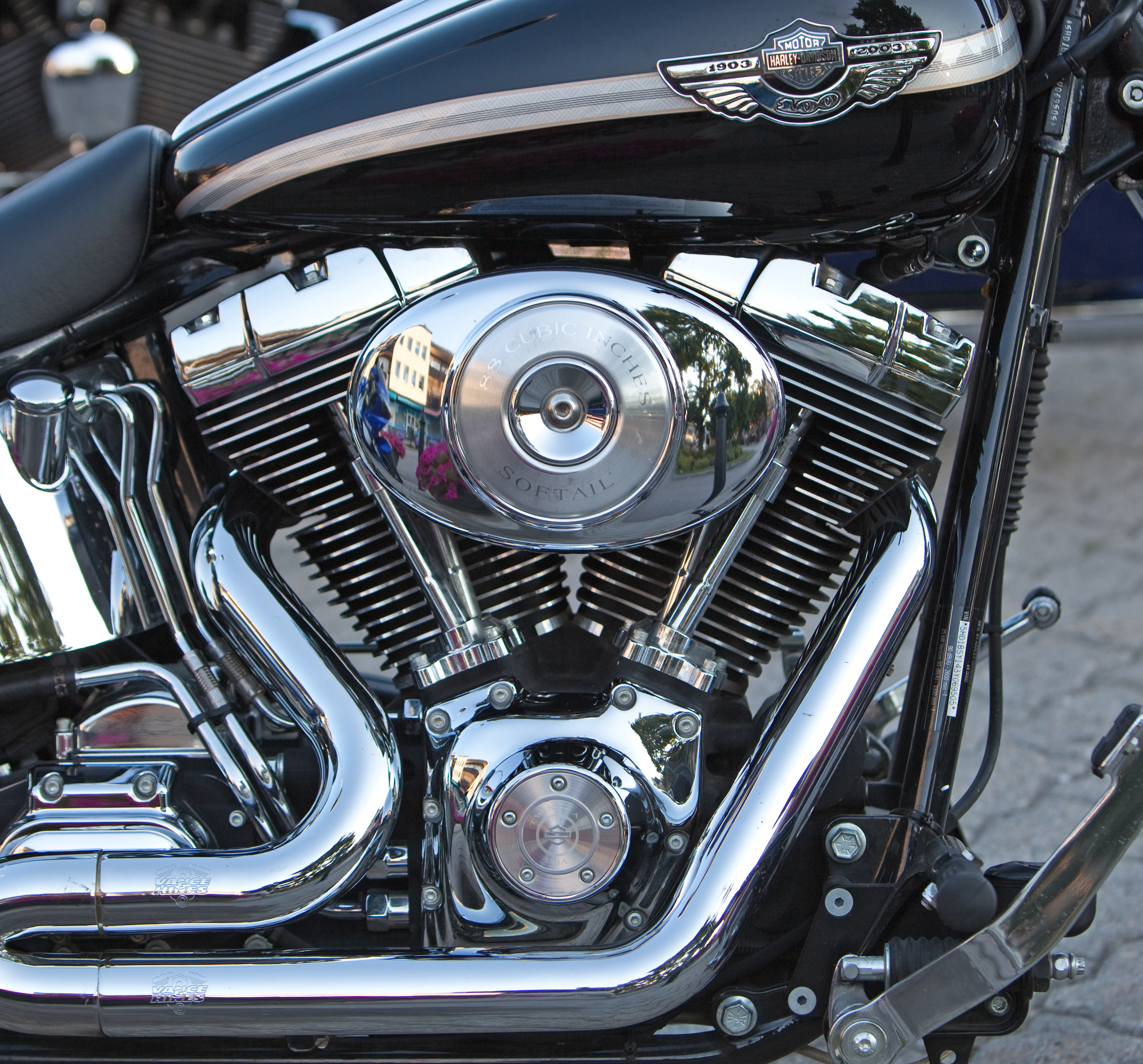 Harley-Davidson softail 88 cubic inches motorcycle engine. Photo Vaxholm 2012